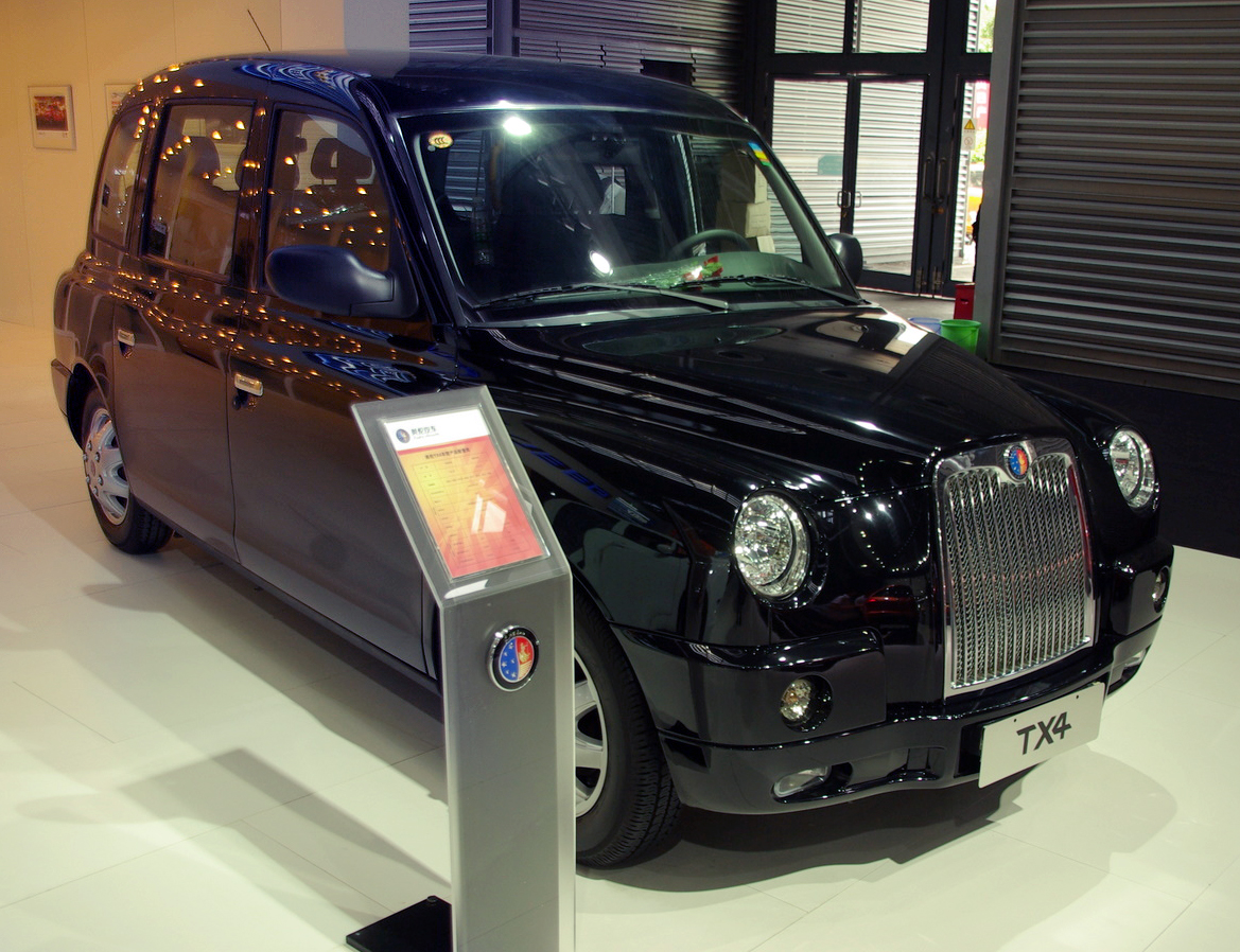 (Geely) Englon TX4 at the 2011 Shenzhen-Hong Kong-Macau International Auto Show.